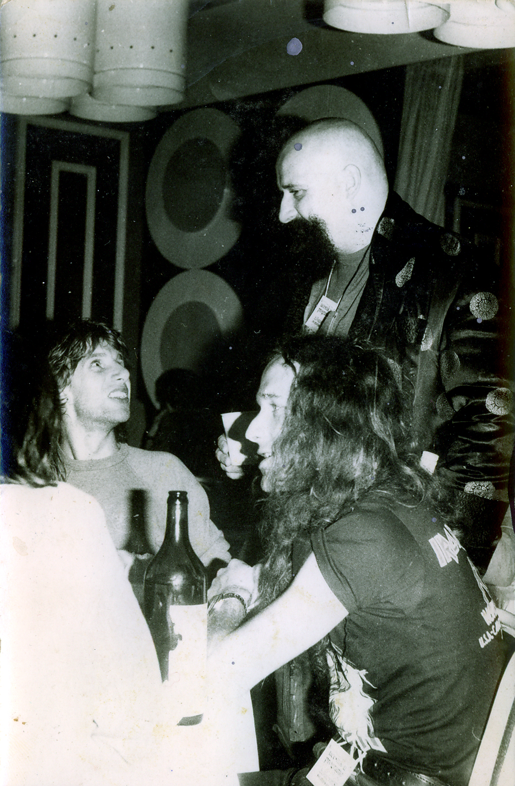 Iron Maiden in Backstage, at a concert "Hipodrom '81" in Belgrade